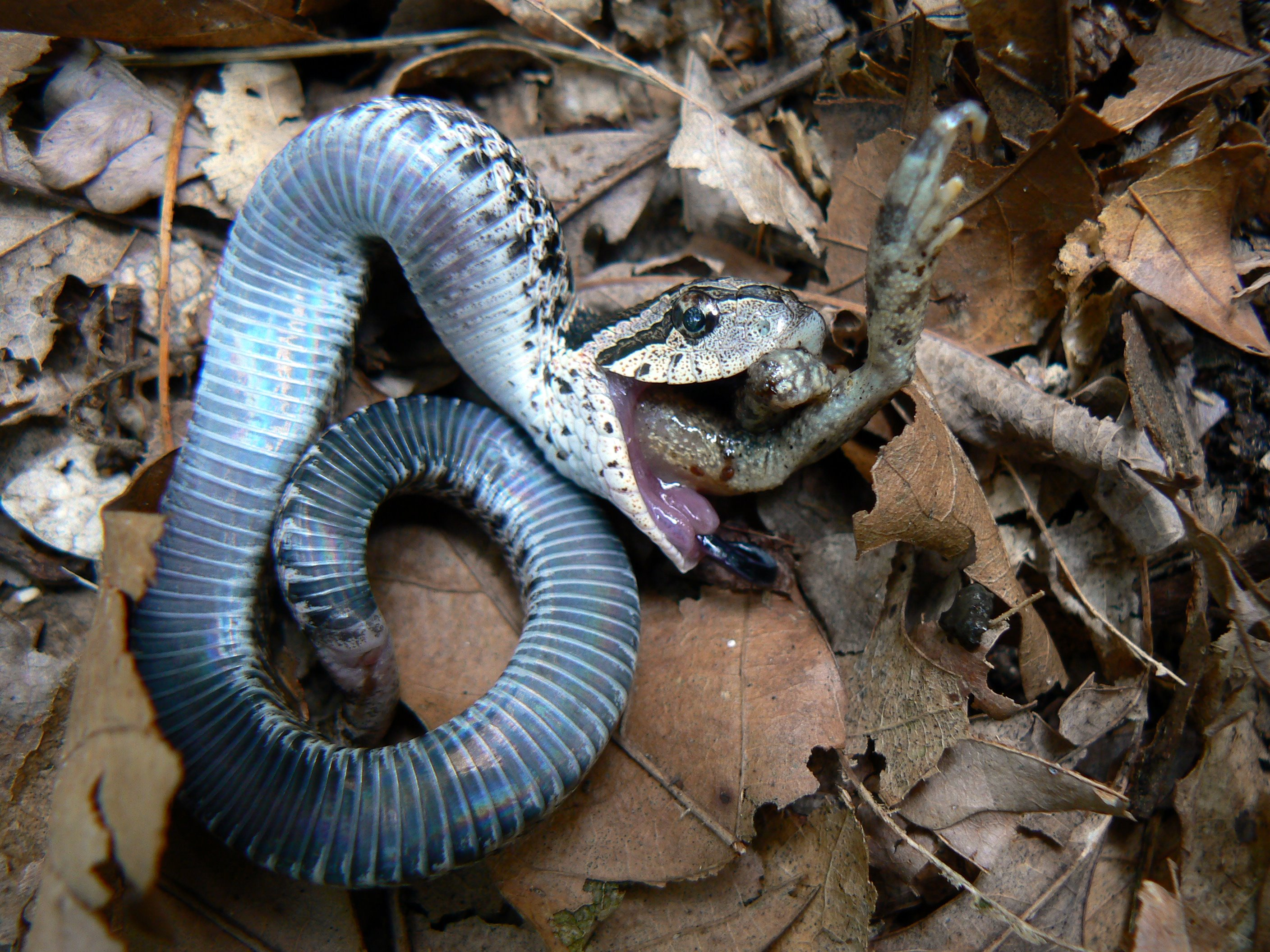 Heterodon platirhinos playing dead. He's so convincing that he even regurgitated some of the toad he just apparently ate.